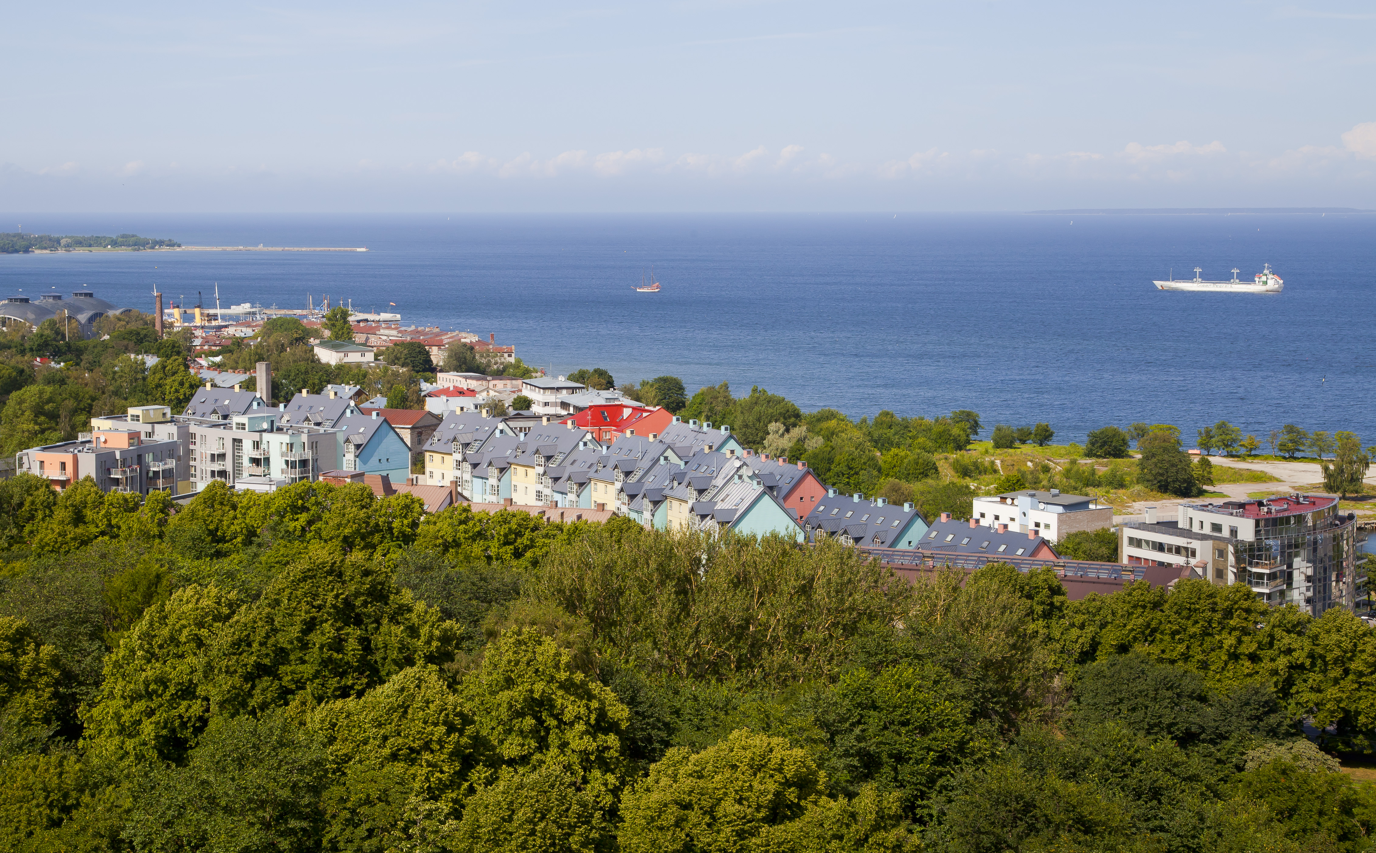 Panoramic view of Tallinn from Olaf's church, Estonia